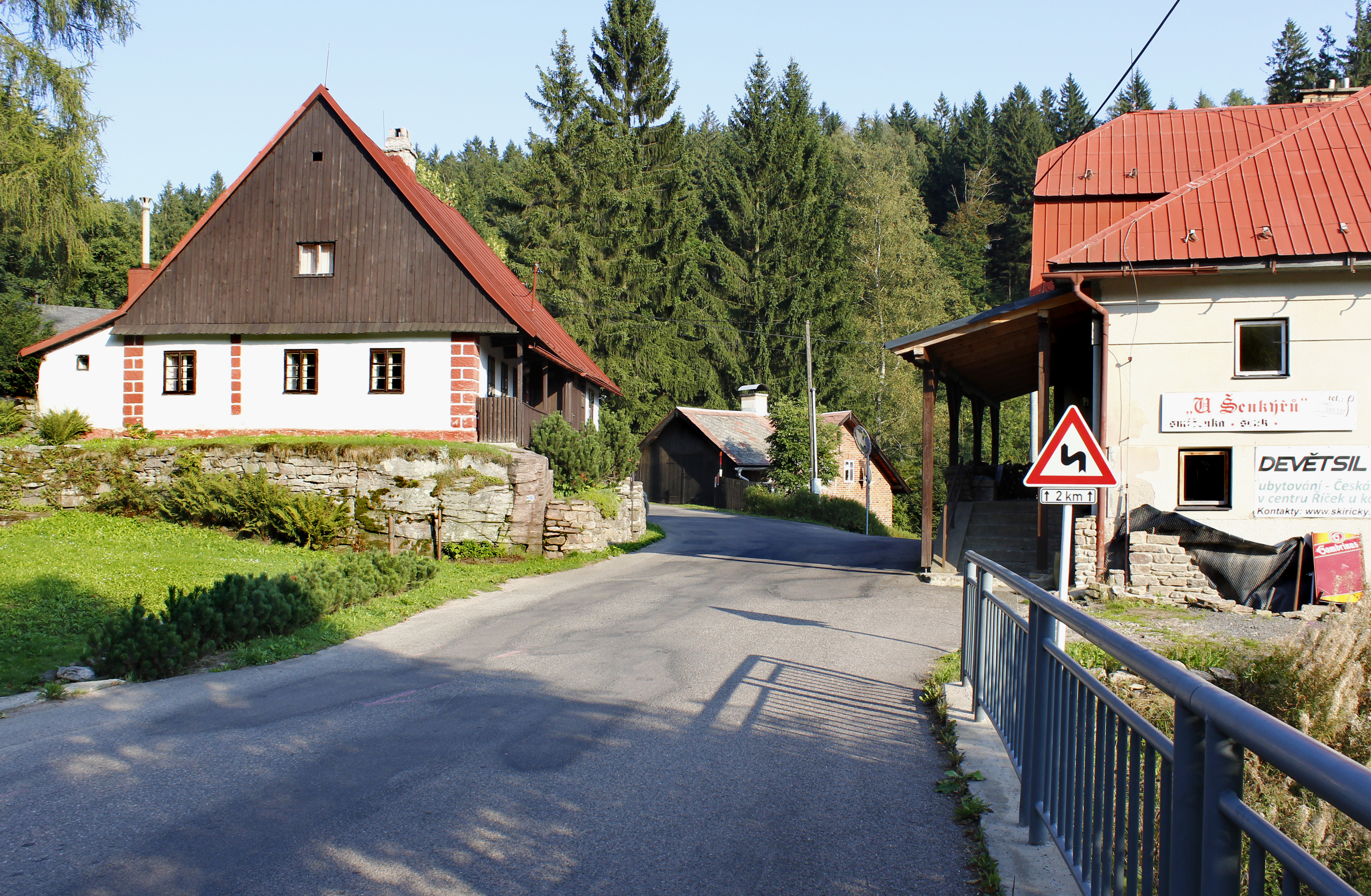 Middle part of Říčky v Orlických horách, Czech Republic